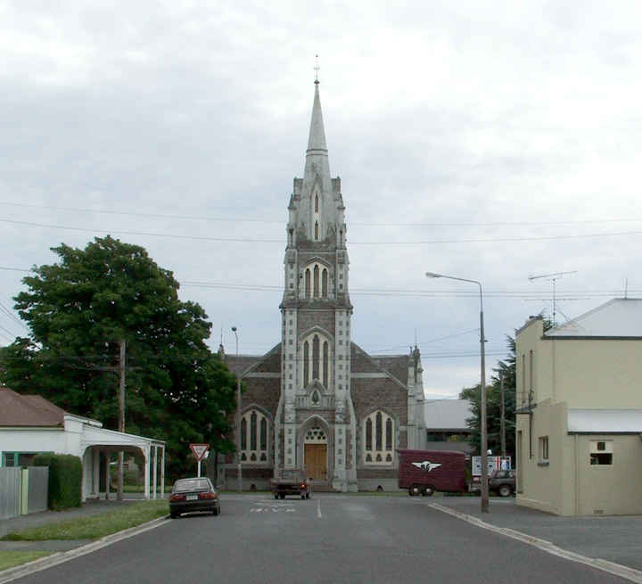 R.A.Lawson's imposing church dominates Ossian Street, Milton, New Zealand. Photographed in January 2006. New Zealand Historic Places Trust Register number: 2250.